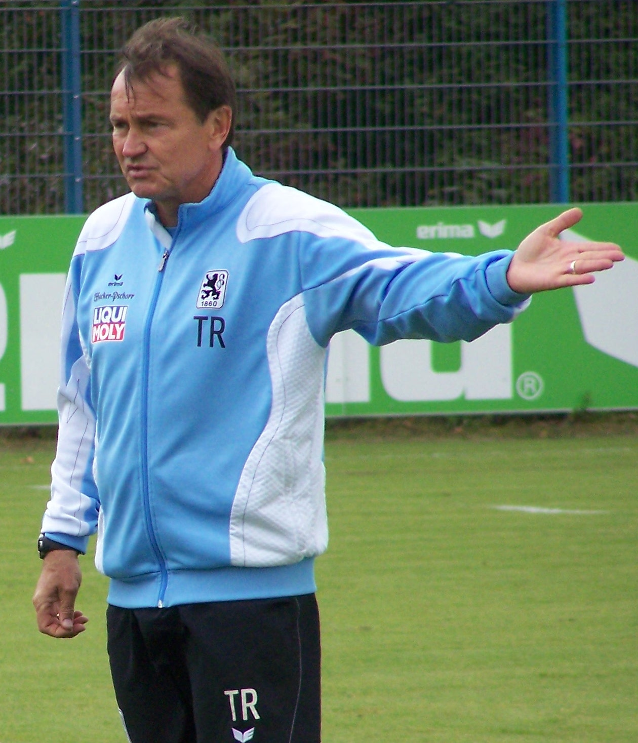 Ewald Lienen